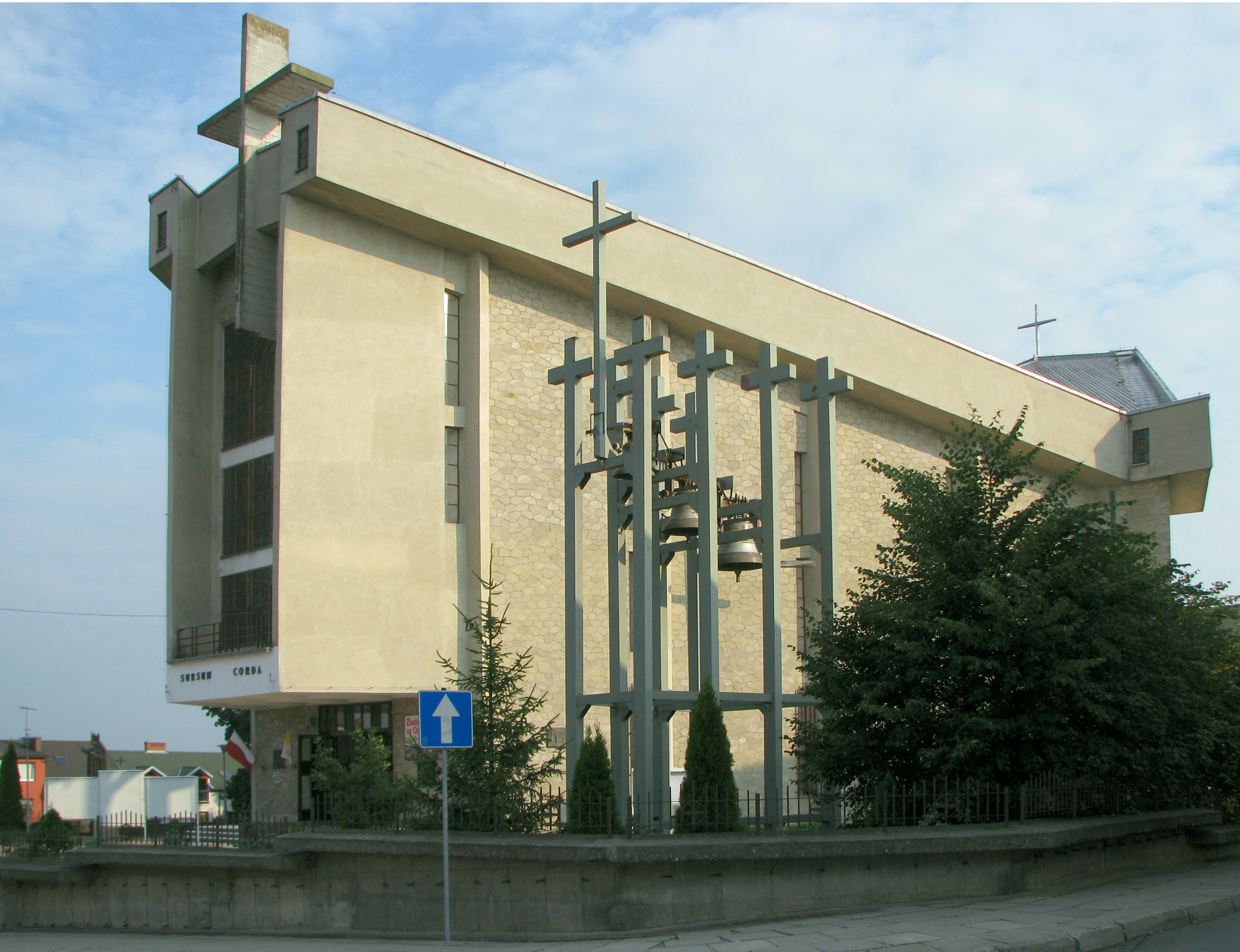 Holy Spirit church in Staszów, Poland.